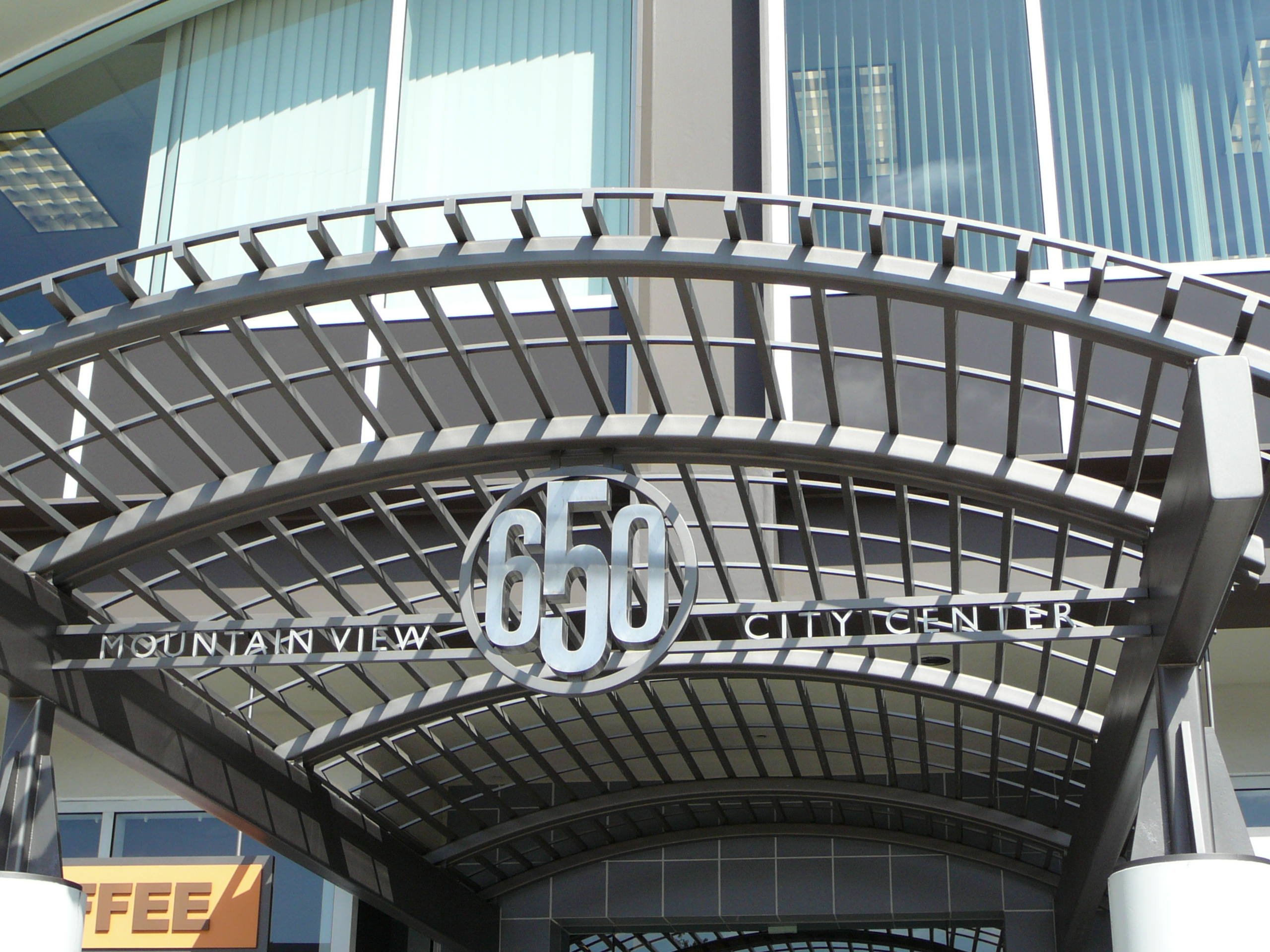 Mozilla's headquarters at 650 Castro Street, Mountain View, CA.